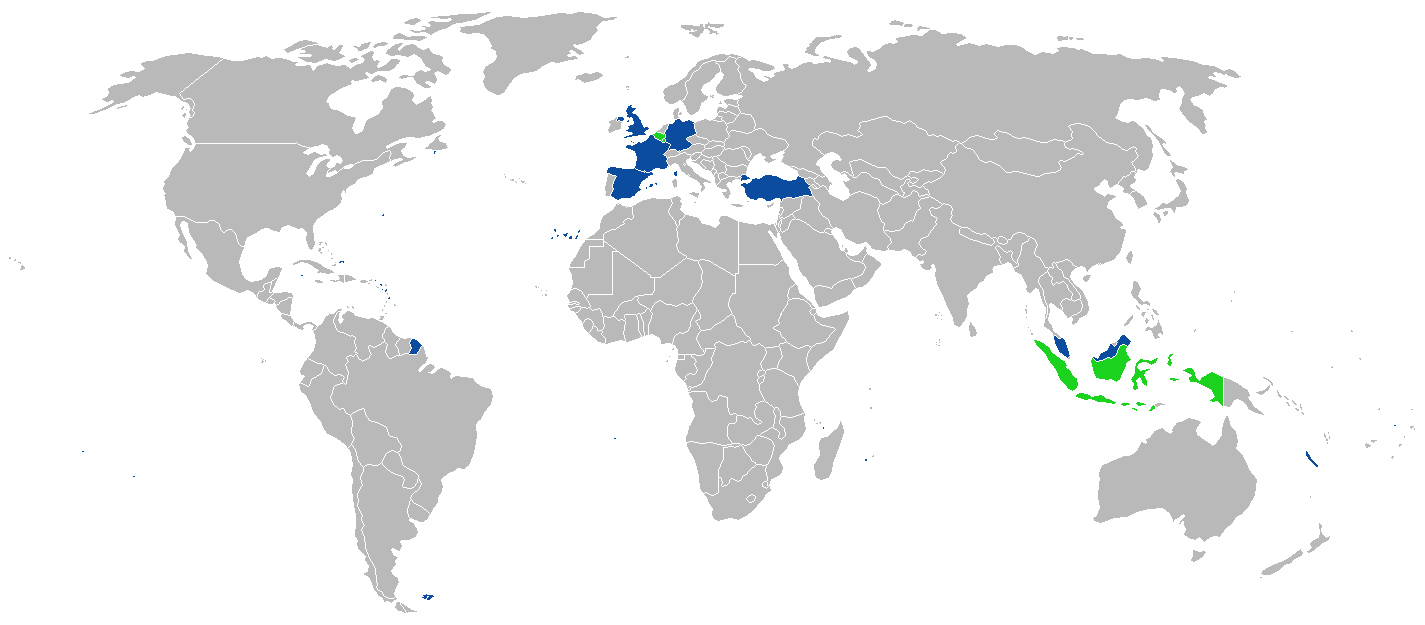 Operators of the Airbus A400M Atlas. Current operators Aircraft ordered